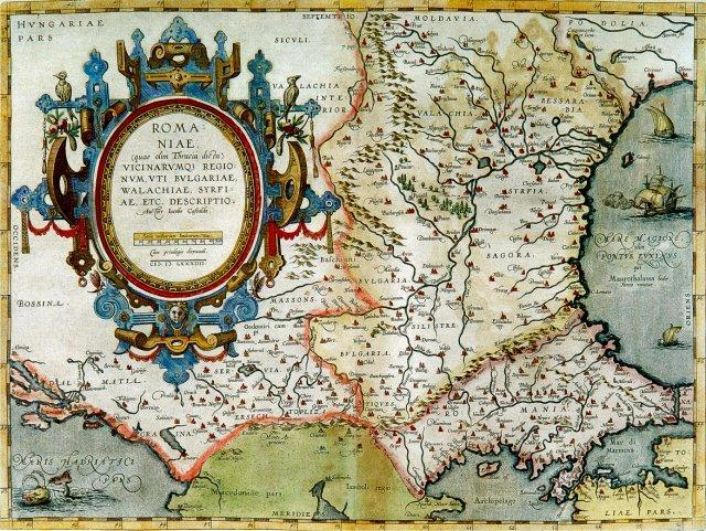 Map of the south-eastern European space included in Theatrum Orbis Terrarum